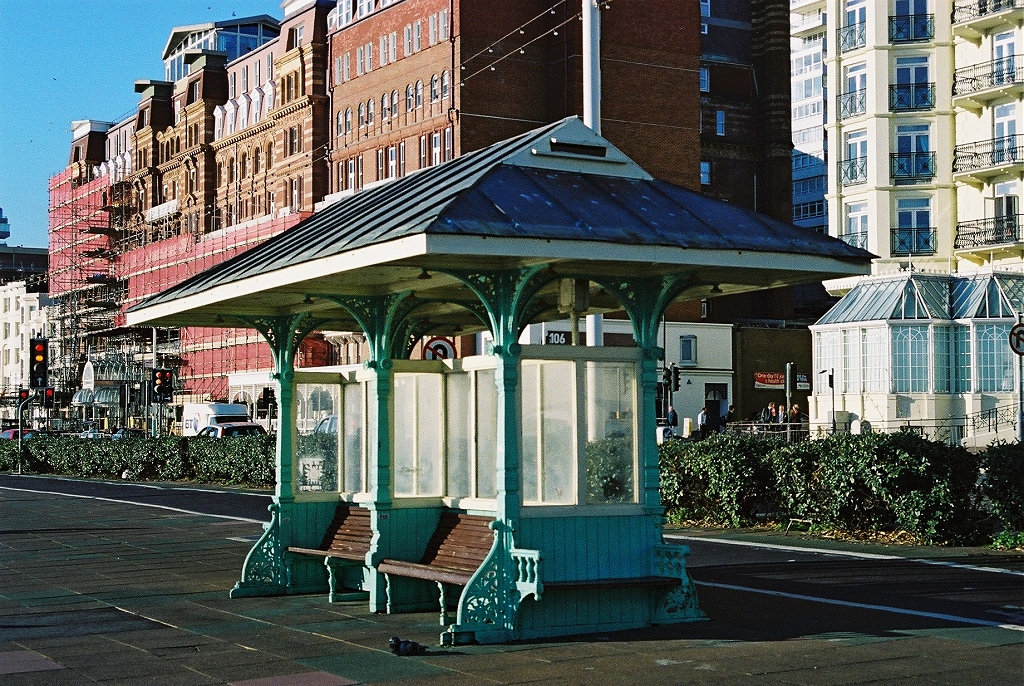 A bus-shelter on the seafront at Brighton. Taken on Thursday 2nd November 2006.